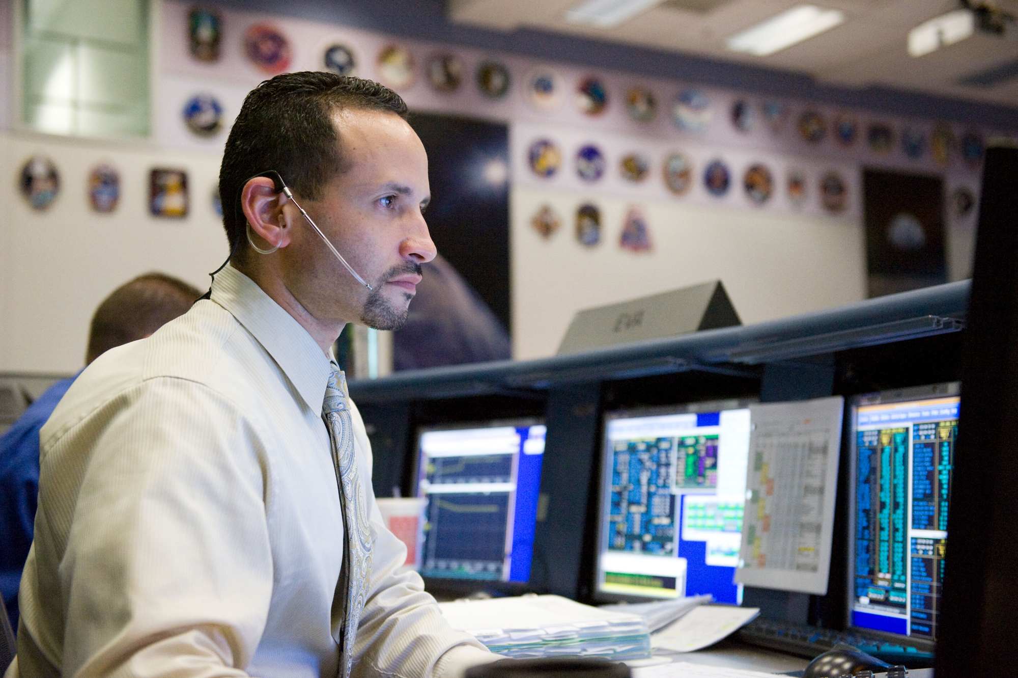 Tomas Gonzalez-Torres, STS-125 lead spacewalk officer, monitors data at his console in the space shuttle flight control room in the Mission Control Center at NASA's Johnson Space Center.